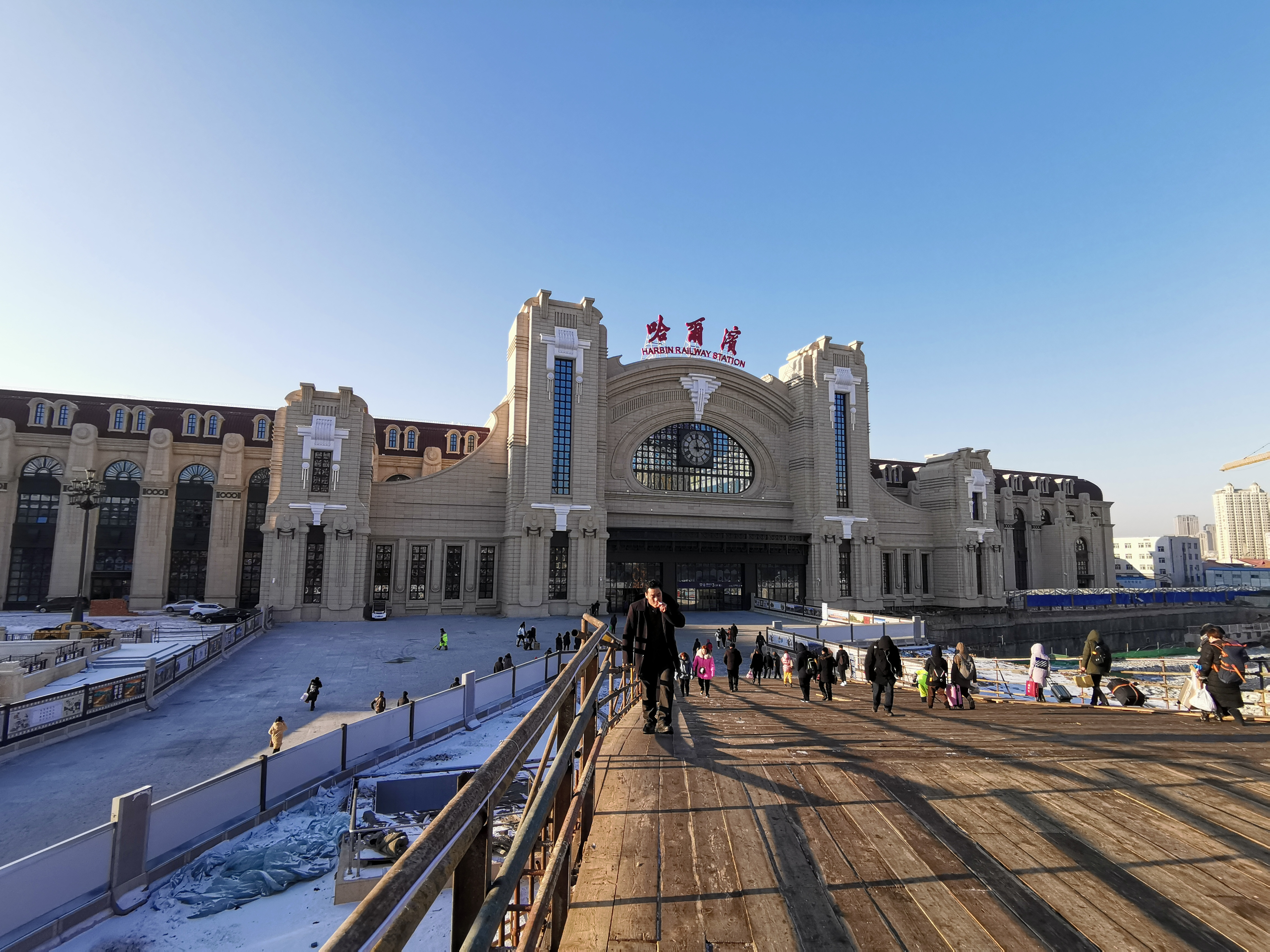 The south terminal of Harbin Railway Station, opened in December 2018, with south square still under construction.